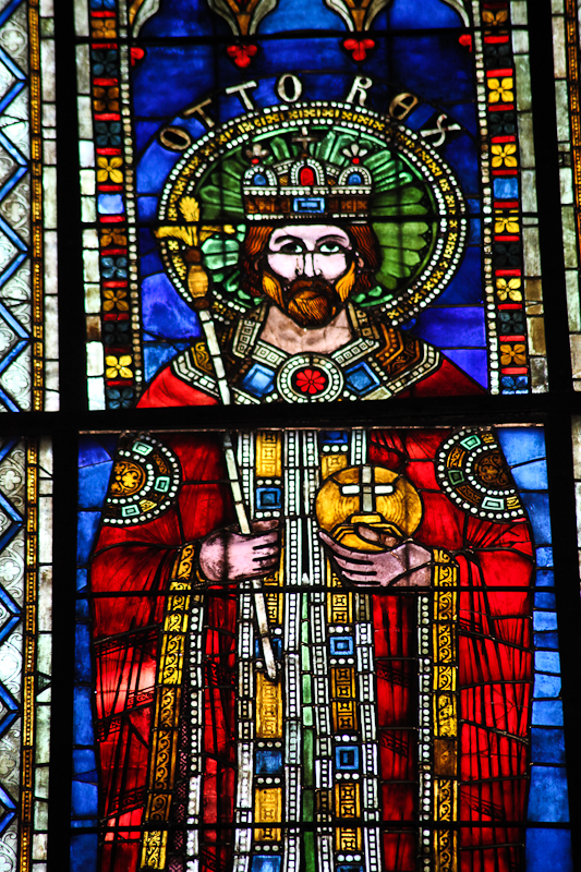 Strasbourg Cathedral - Stained glass window